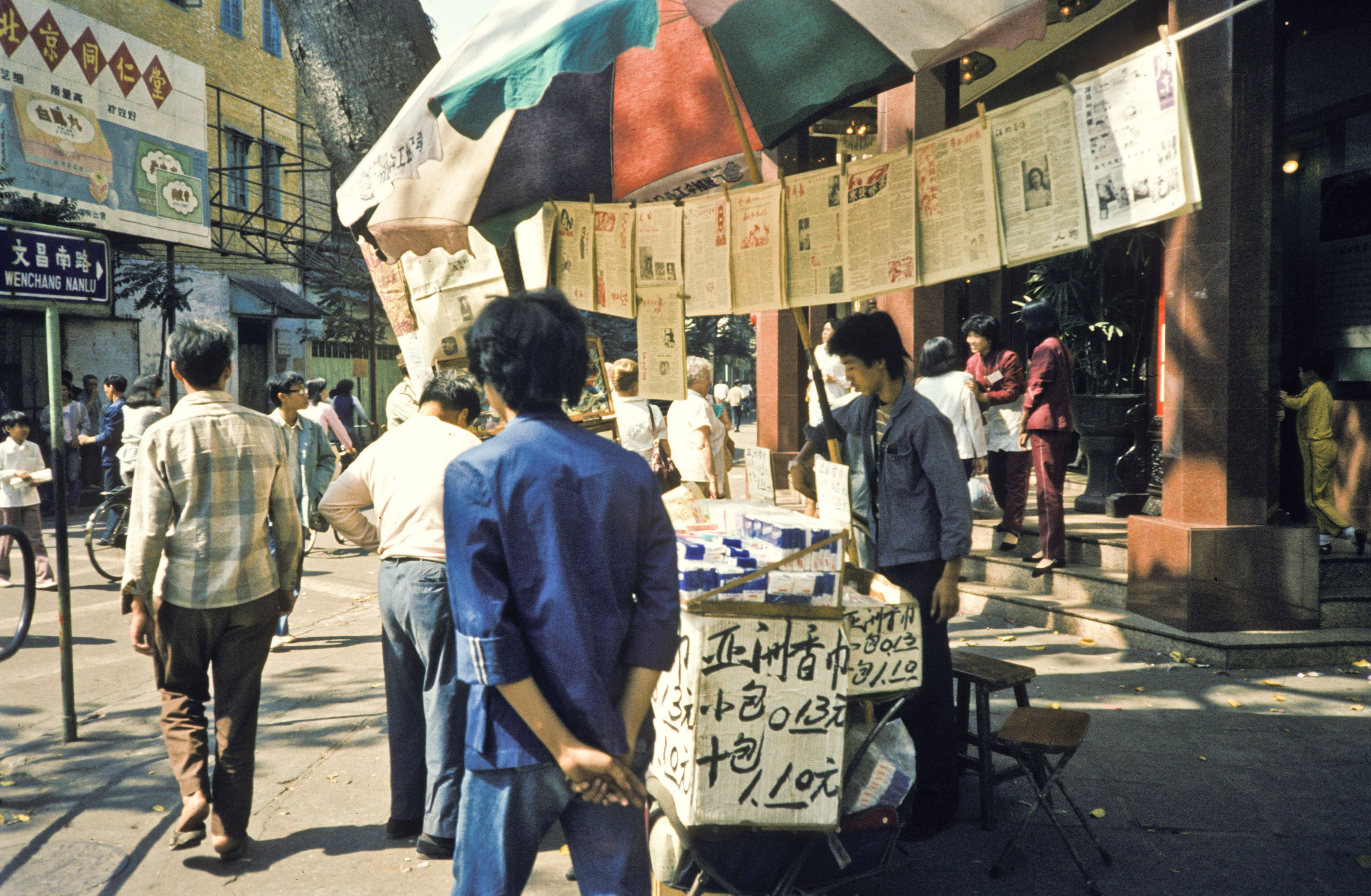 Street scene in Canton, Kwangtung. 粵語: 廣州文昌南路